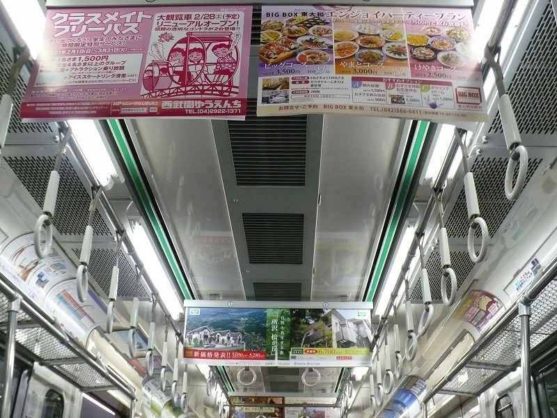 interior view of Seibu 6000 series